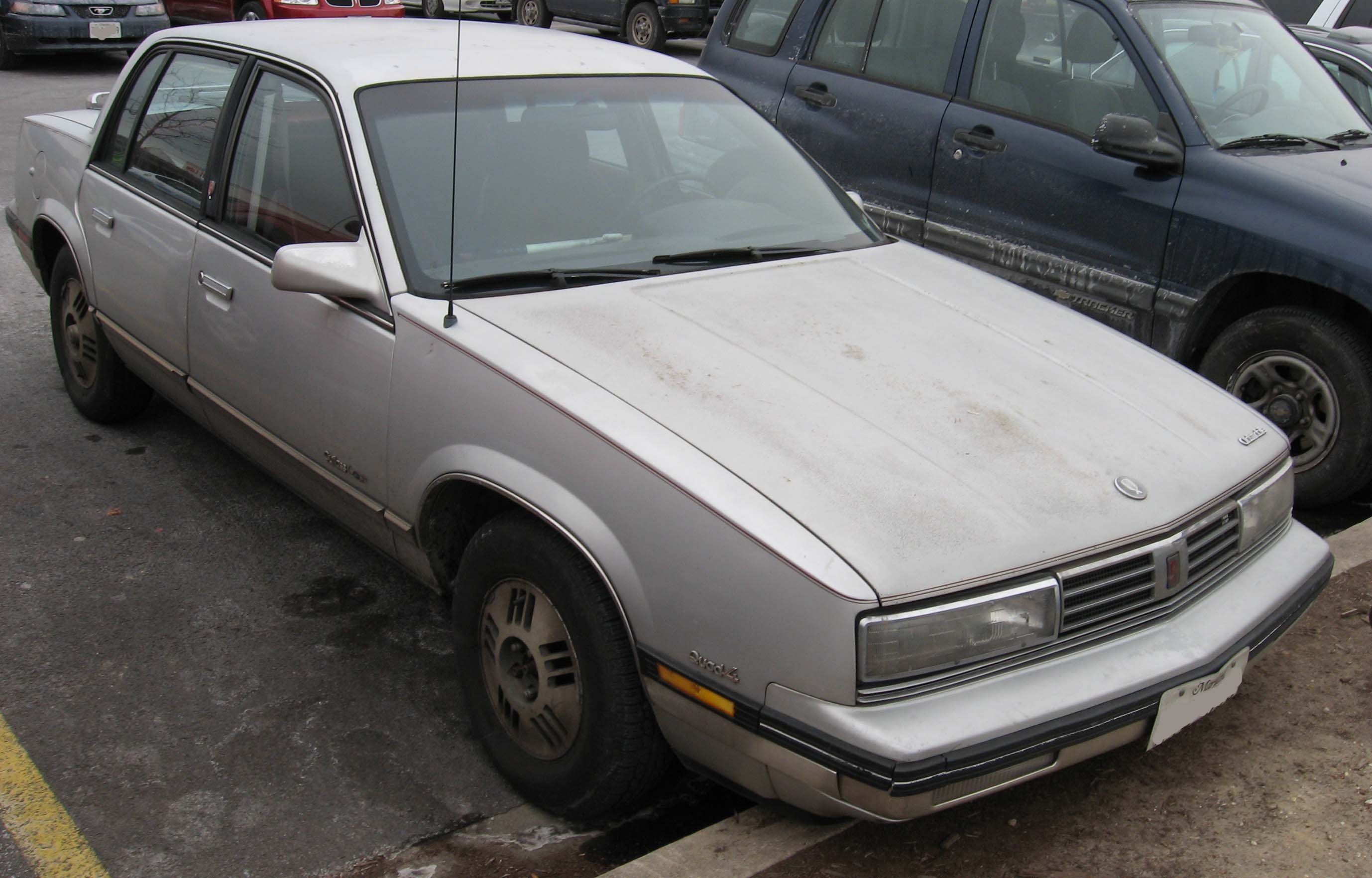 1988-1991 Oldsmobile Cutlass Calais photographed in USA.